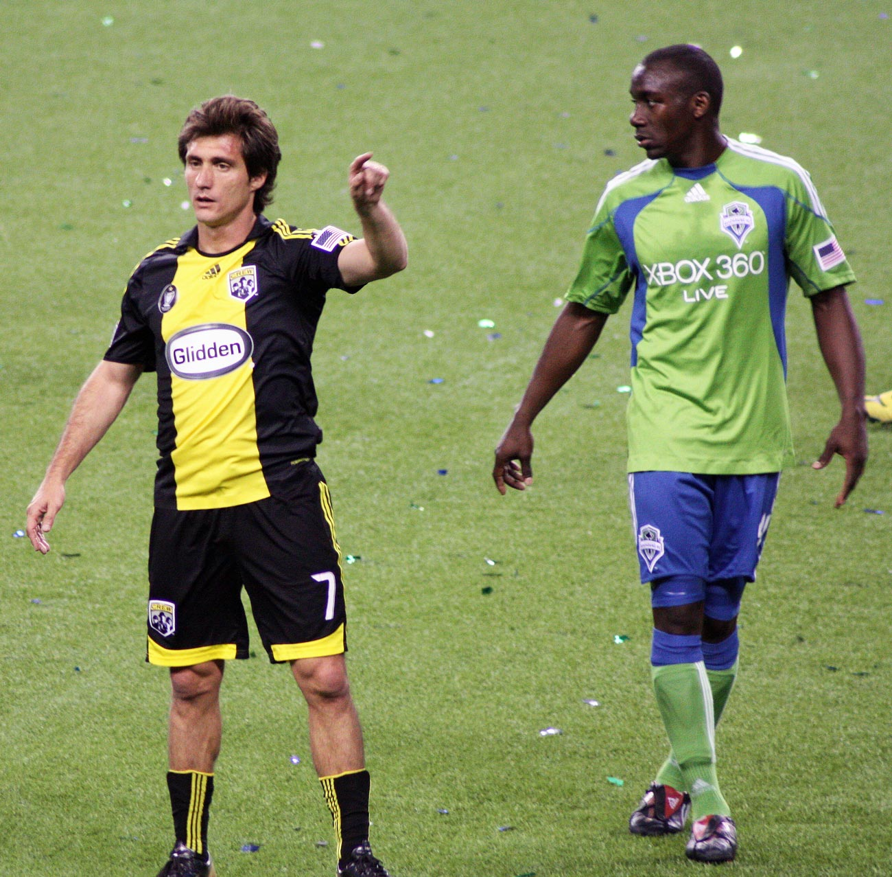 Guillermo Barros Schelotto of Columbus Crew and Jhon Kennedy Hurtado Seattle Sounders FC on May 31, 2009